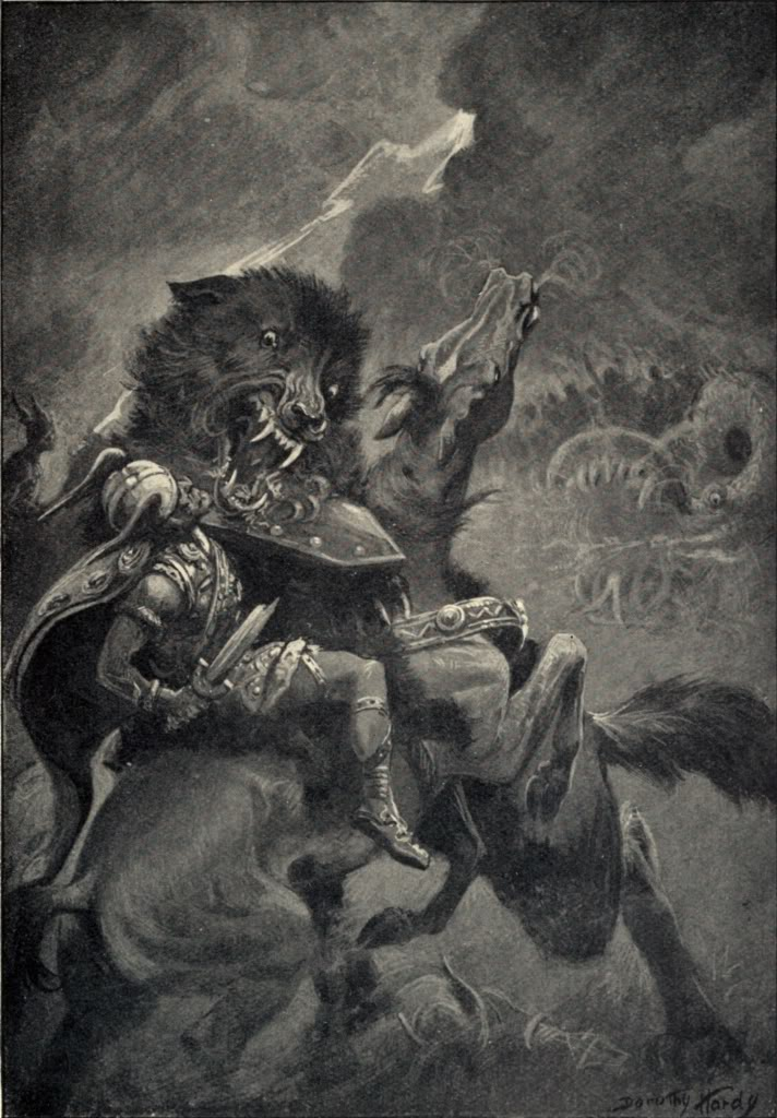 Fenris devouring Odin.